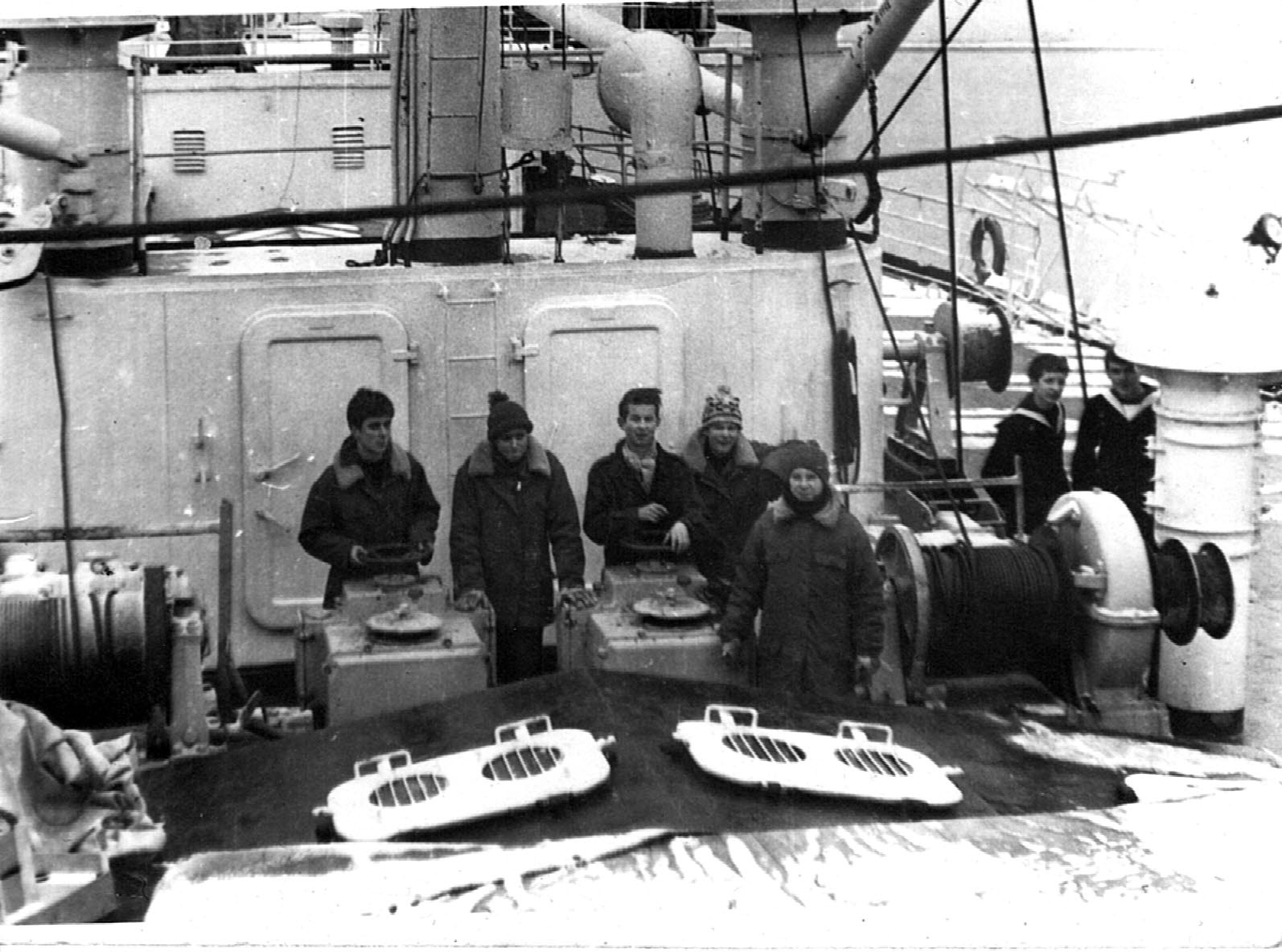 Pupils of Liceum Morskie (Maritime Lyceum) in Gdynia during practical training on board of training vessel MS Edward Dembowski.